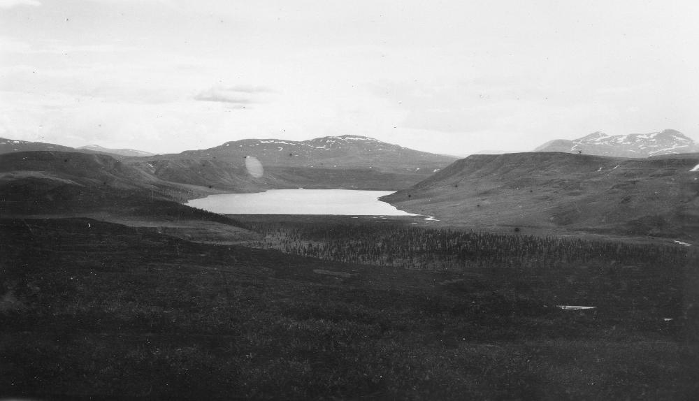 Survey photograph of the lake that would come to be known as Fielding Lake, original caption was “Lake southwest of north bend of Phelan Creek. Alaska. 1910” exact date unknown